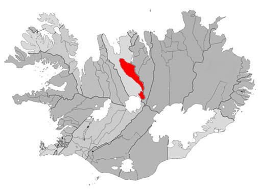 Based on Municipalities of Iceland.png.